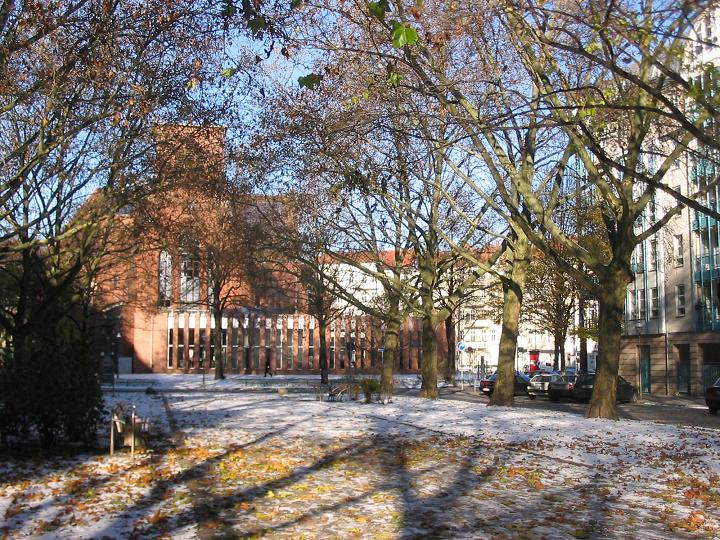 Hermannstreet in Berlin-Neukölln. Neighbourhood “Schillerkiez“, Schillerpromenade, view to „Herrfurthplatz“ with „Genezarethkirche“.